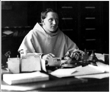 Priest Georges (Ceslas) Rutten o.p. (1875-1952)